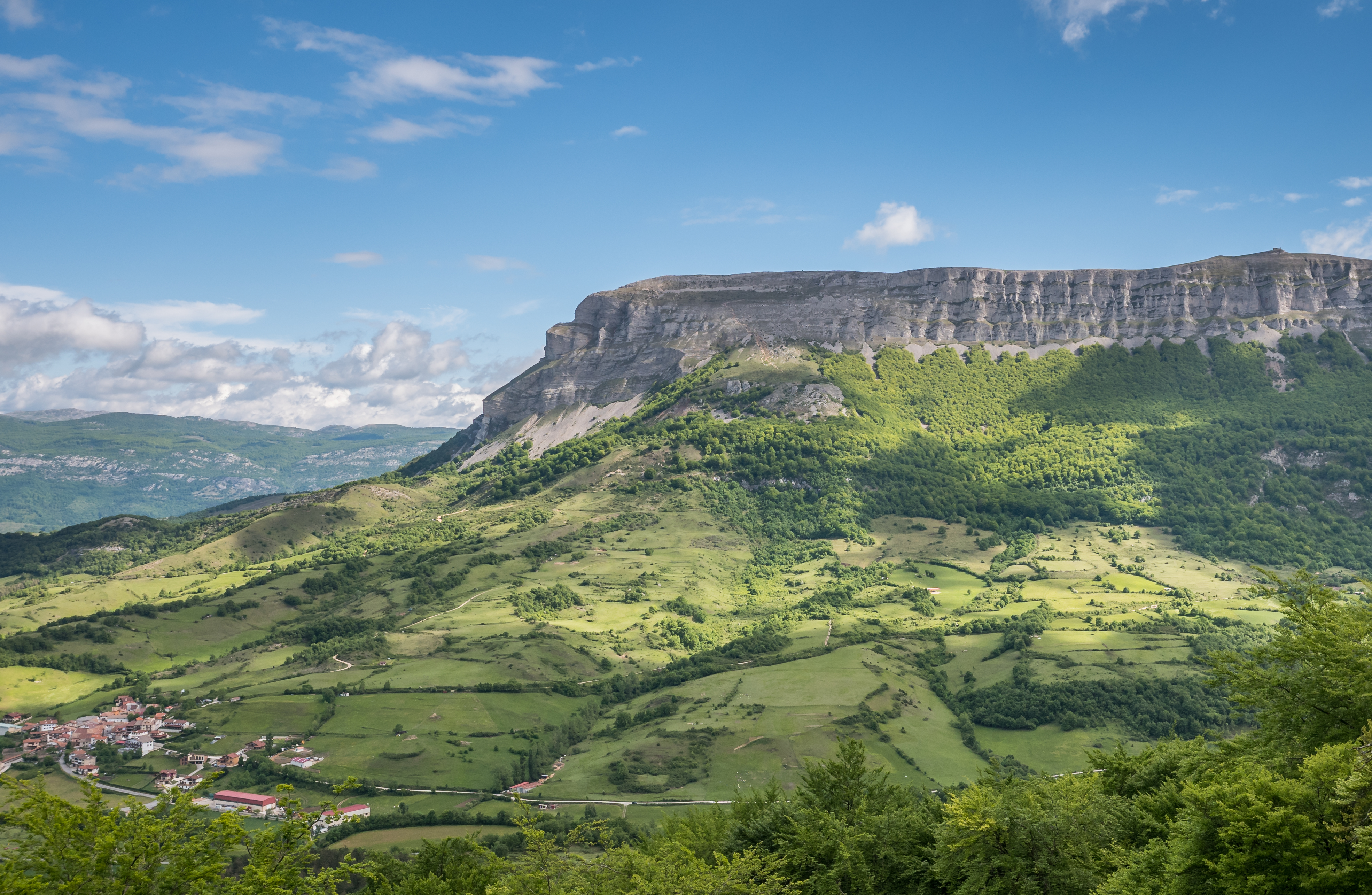 Beriain mountain range, la Barranca and the Dorrao village. Navarre, Spain